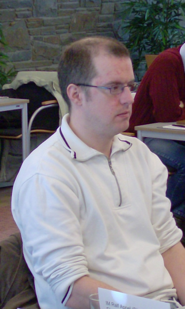 Ralf Appel, German chess player